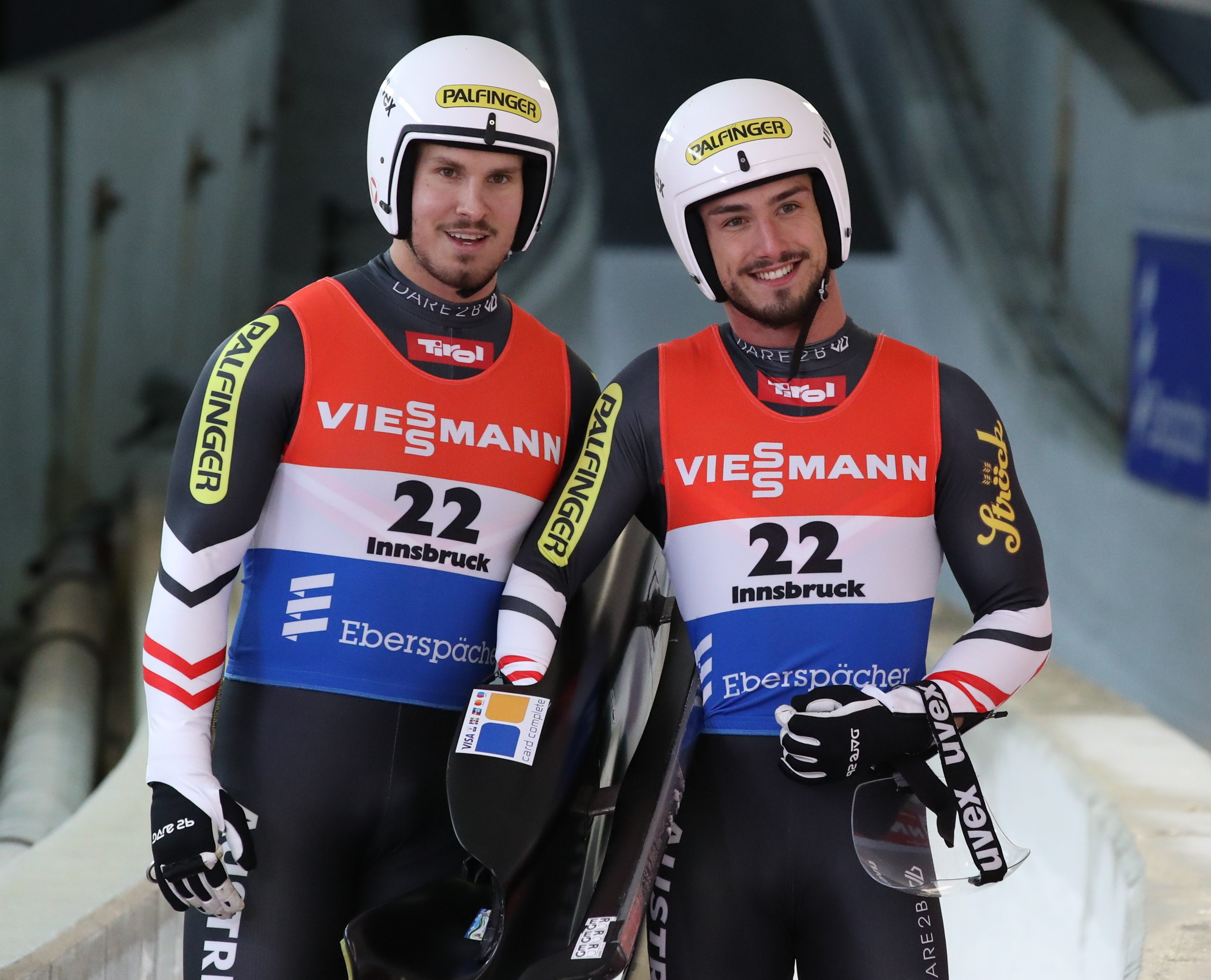 Doubles World Cup race at the 2019/20 Luge World Cup in Innsbruck-Igls